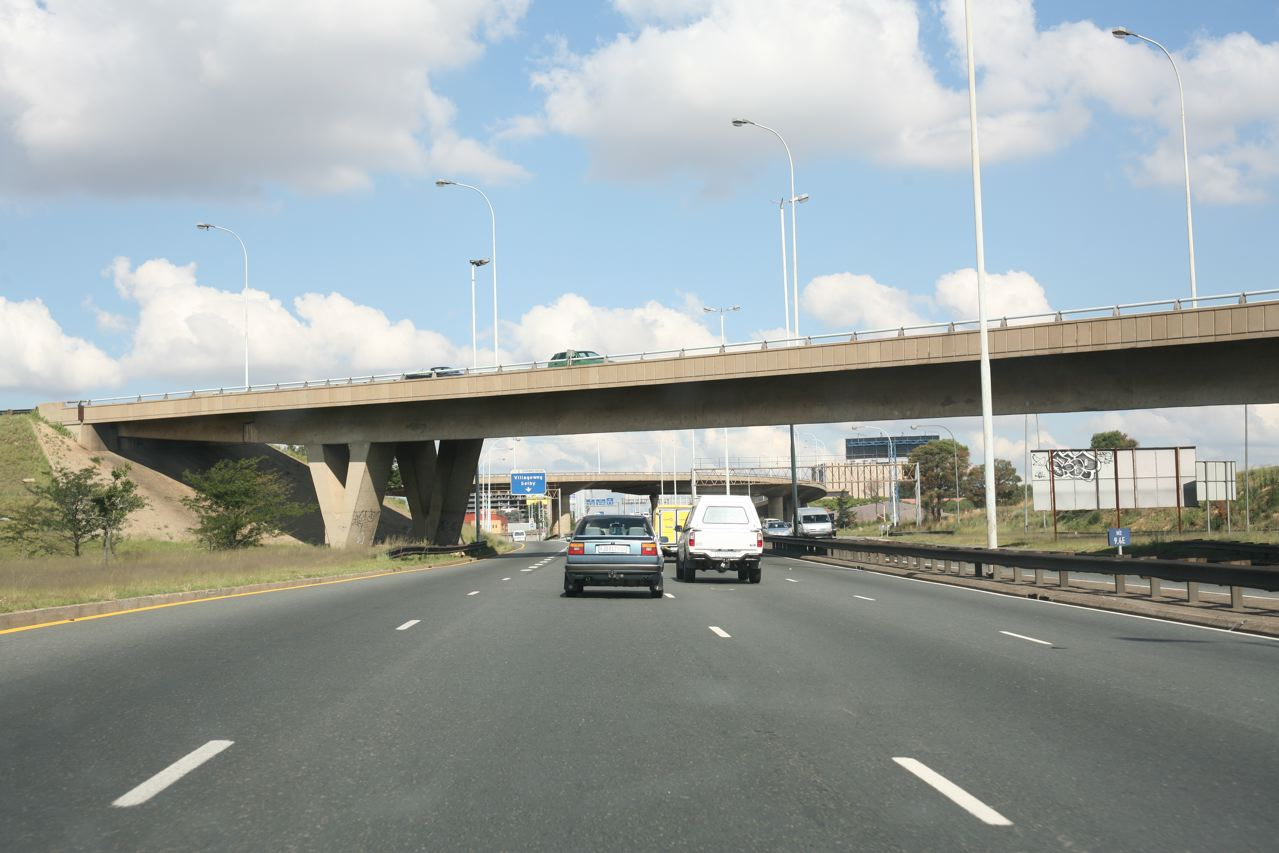 The M2 in the CBD of Johannesburg, South Africa in January 2006. Taken by User:PZFUN.